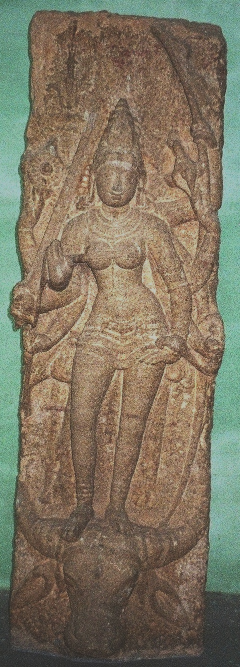 Durga Korravai early Chozha, 10th century Thiruvalanchuzhi 42